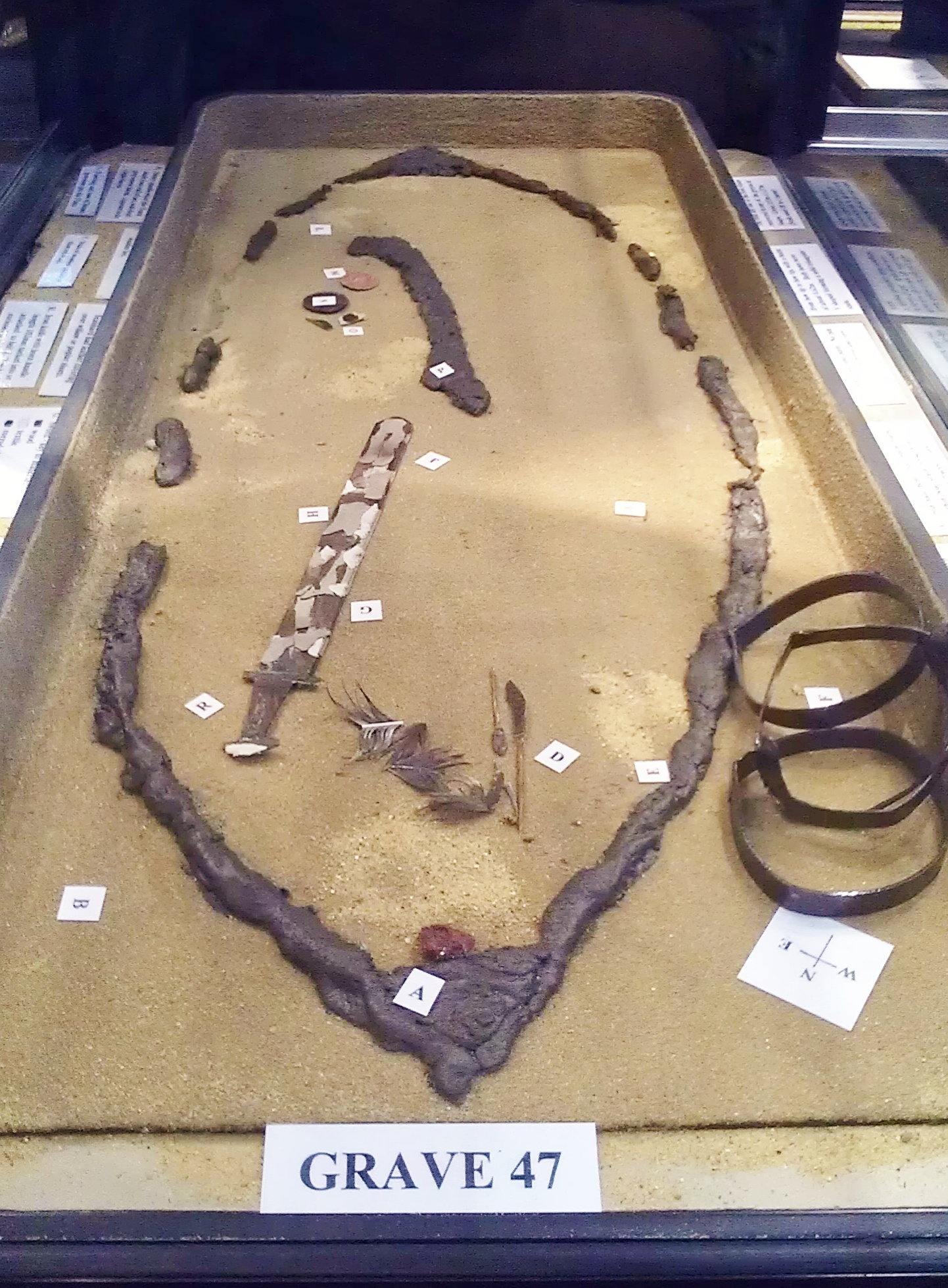 A model of the Snape ship burial found in the Aldeburgh Moot Hall museum.